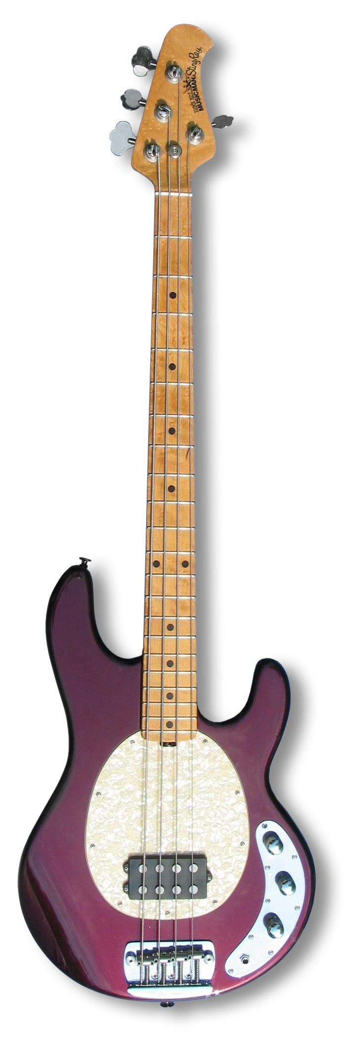 Music Man StingRay "Redhot Edition" 1997